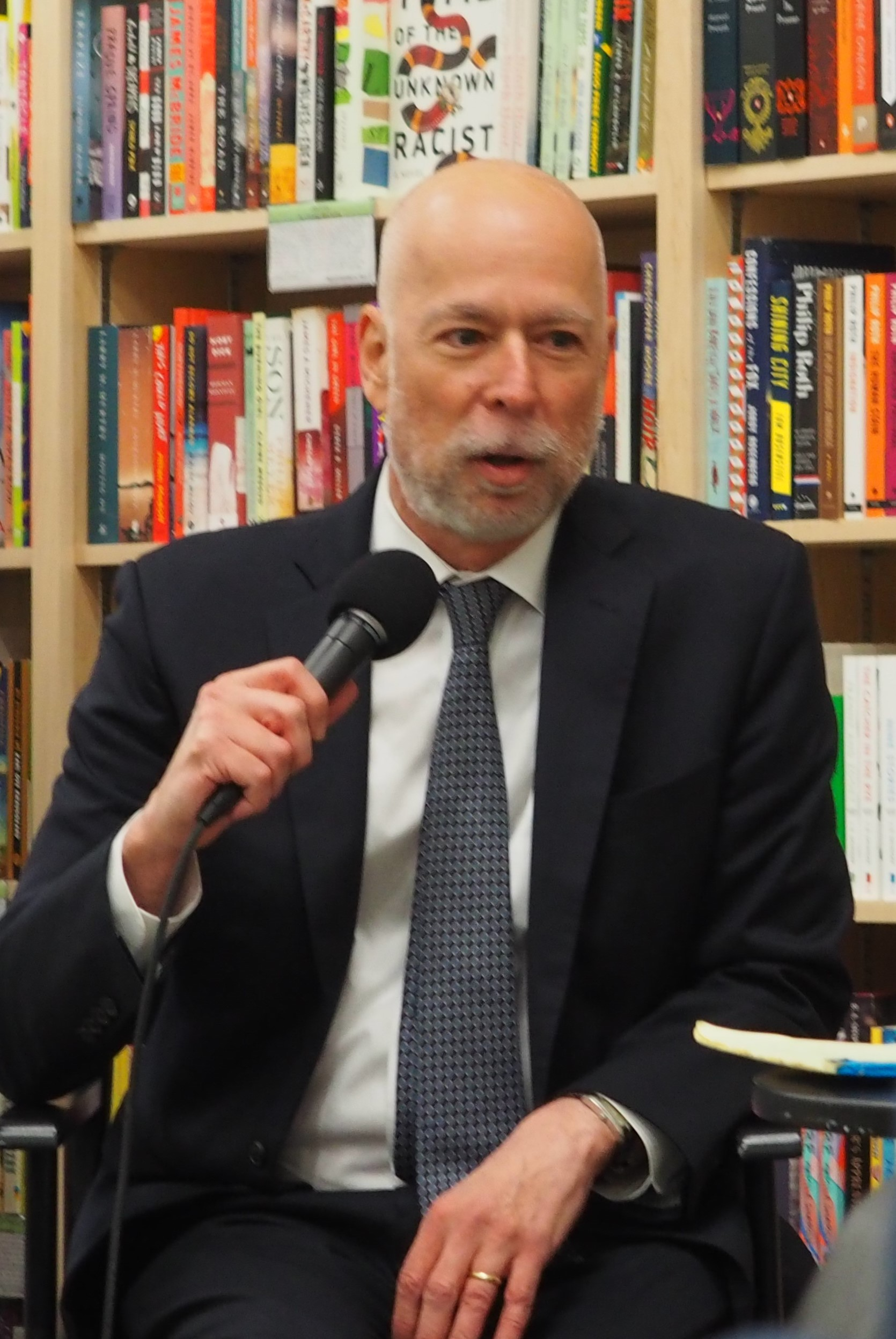 reading at Politics and Prose, Washington, D.C.